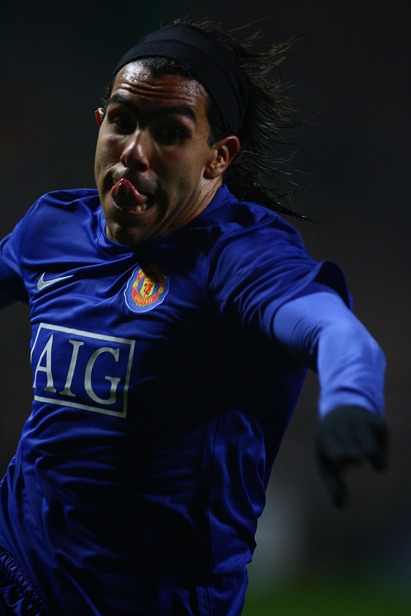 NOVEMBER 5, 2008 - Football : Carlos Tevez of Manchester United during the UEFA Champions League Group E match between Celtic and Manchester United at Celtic Park on November 5, 2008 in Glasgow, Scotland. (Photo by Tsutomu Takasu).